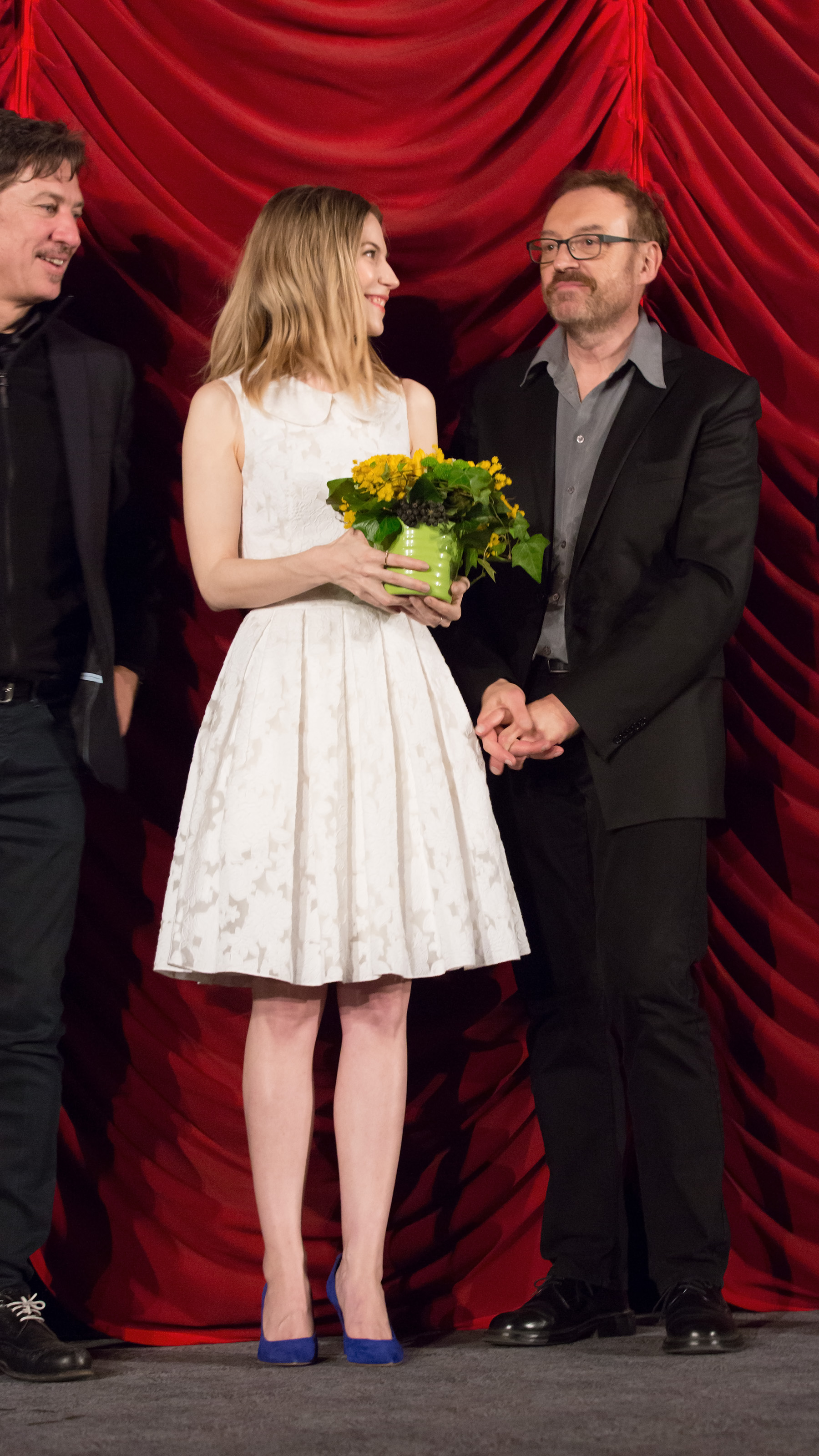 Premiere of the film Das ewige Leben at Gartenbaukino in Vienna, Austria: Tobias Moretti, Nora von Waldstätten and Josef Hader.